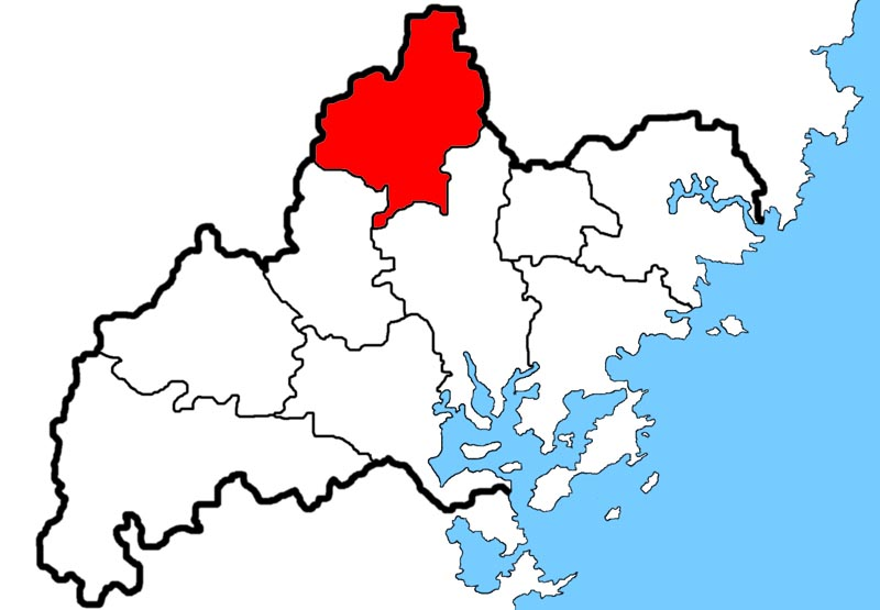 The map of Shouning county, Ningde